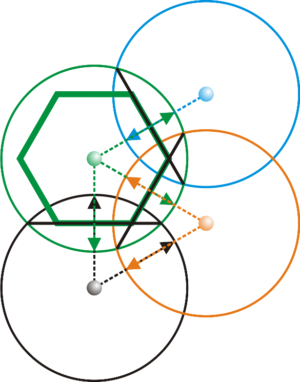 A simple drawing, explaining the polygons in Central place theory